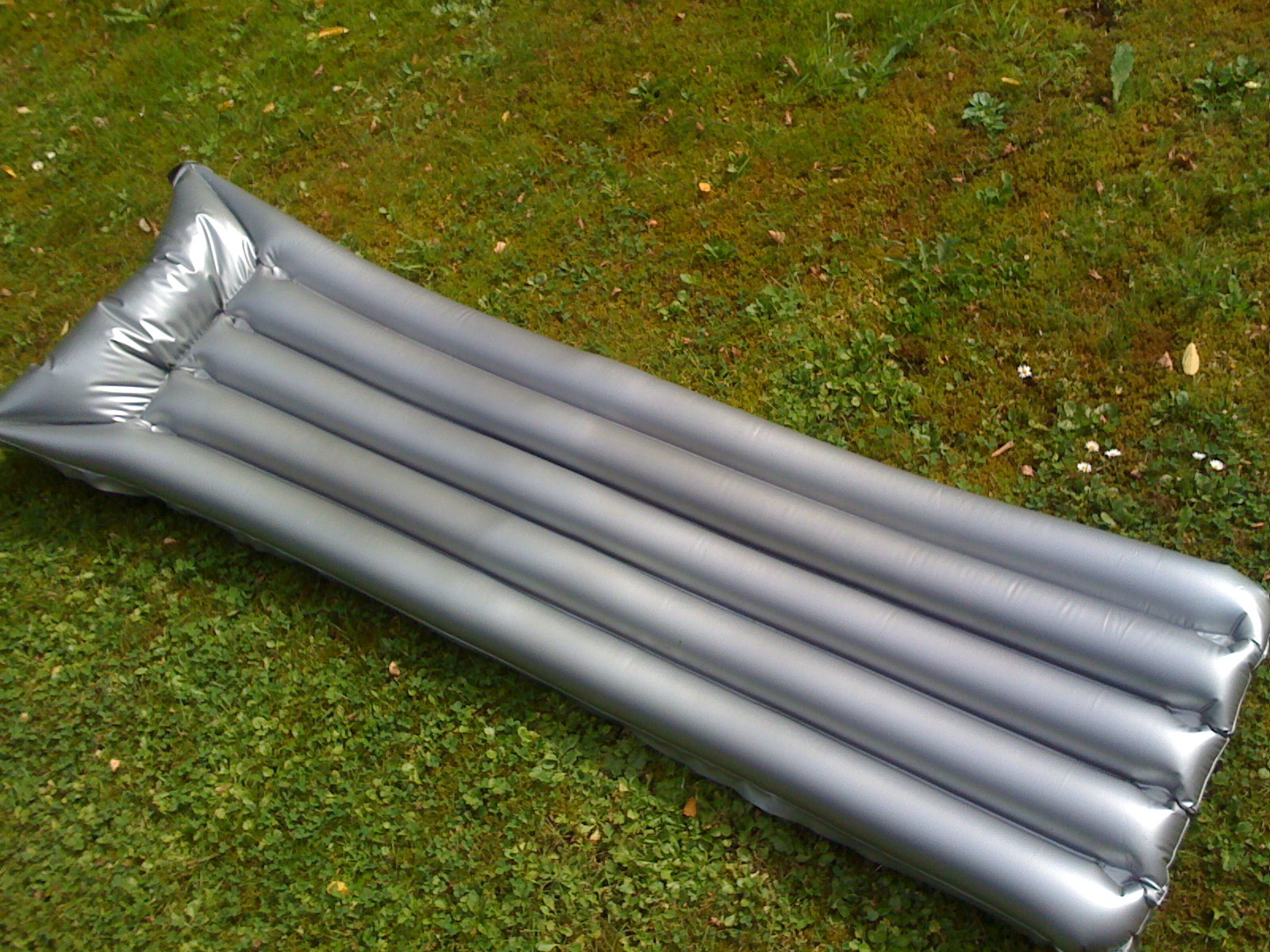 A silver sun tanner air mattress